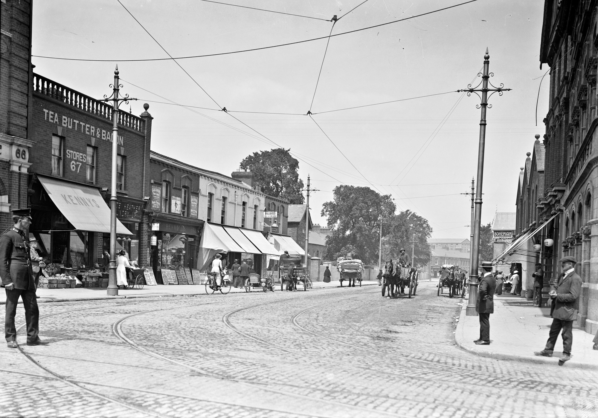 While slightly hungover and off colour after yesterday's celebrations here in Library Towers at reaching 50M, it is still my duty to post today! And what a post? This Eason image of Doyle's Corner is full of interest and evidence of the daily life in Ireland in the first half of the last century! I am looking forward with anticipation to read what we can find out about this lovely shot.... With thanks in particular today to [/photos/gnmcauley/ Niall McAuley], [/photos/38016434@N05/ Flame1958], [/photos/swordscookie/ swordscookie] and [/photos/8468254@N02/ derangedlemur] it is confirmed that this image likely dates to the summer of 1914 (probably late June). Much of this dating discussion revolved around the news posters outside Reynlod's at number 68 - and the striking headline about the "British Fleet Commanded by the Kaiser". This (seeming contemporary equivalent of clickbait :) ) related to an inspection by the Kaiser in a pre-war visit of the fleet to the German port of Kiel. The other main discussion point was the member of the Dublin Metropolician Police on apparent point-duty. Sporting collar-number D109, he was likely based at Mountjoy barracks a few hundred yards east along the NCR (still an active Garda station)..... Photographer: Unknown Collection: Eason Photographic Collection Date: Catalogue range c.1900-1939. Likely 1914 per comments. NLI Ref: EAS_1878 You can also view this image, and many thousands of others, on the NLI’s catalogue at